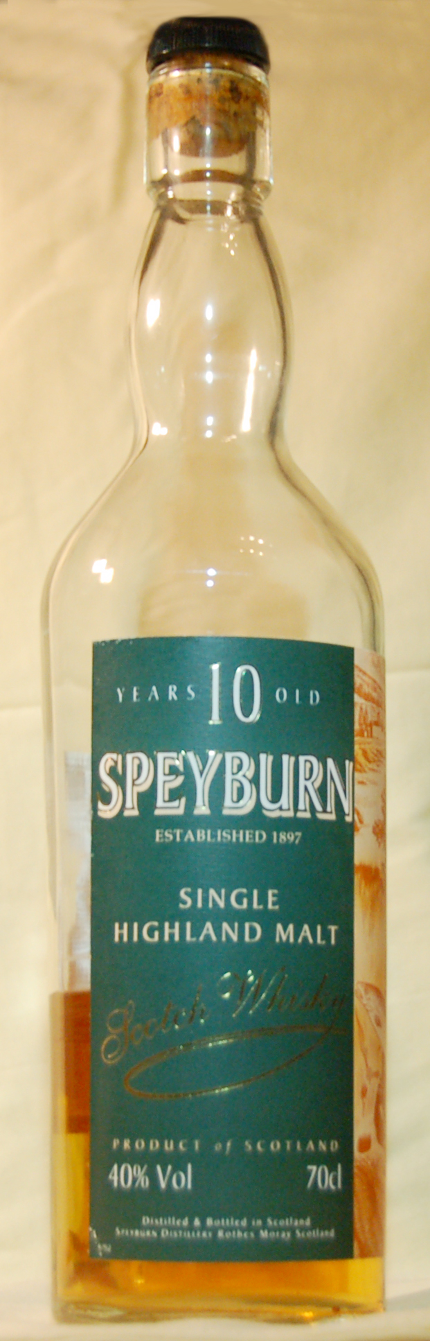 bottle of Speyburn Whisky